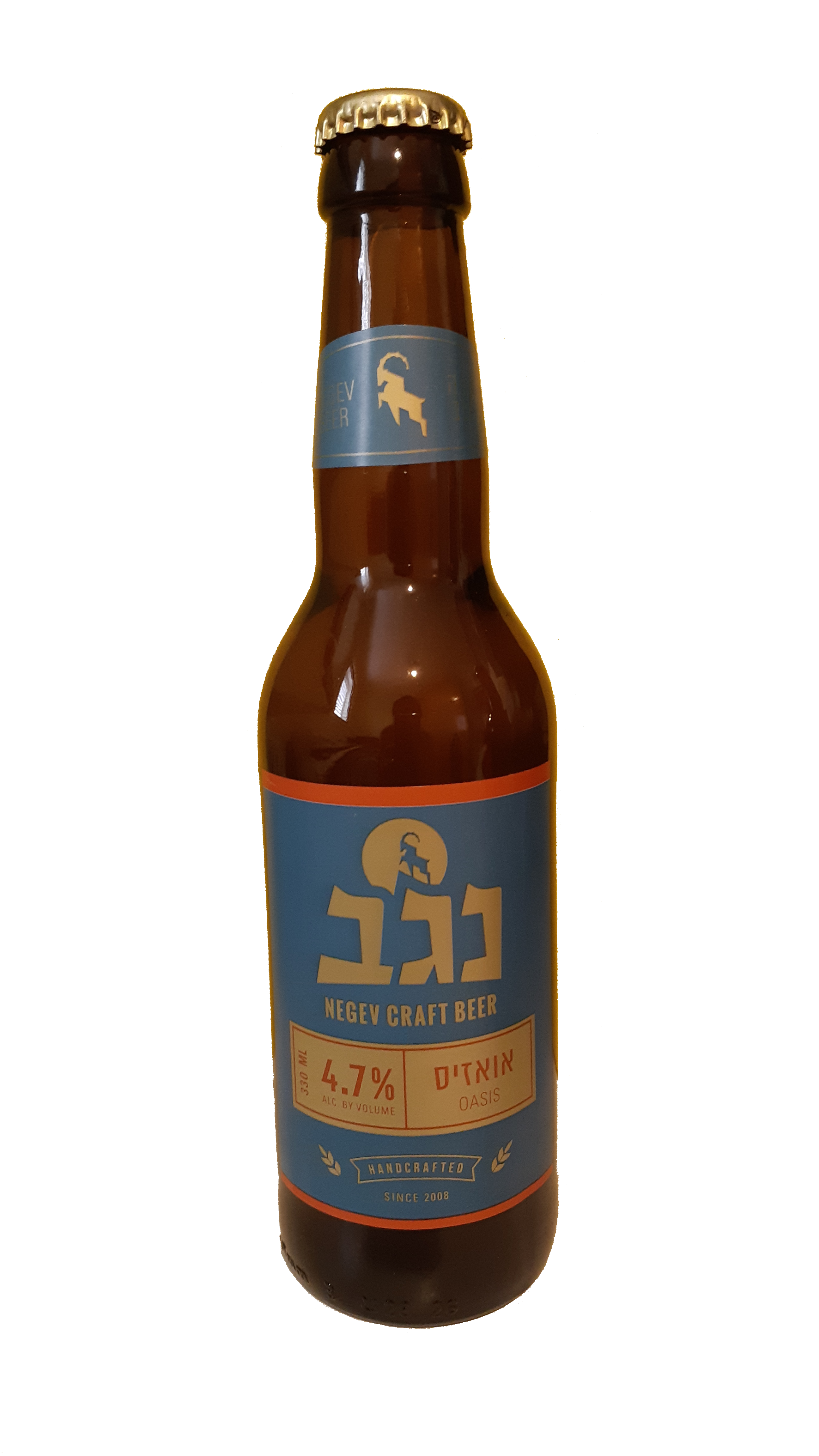 Oasis Negev Beer